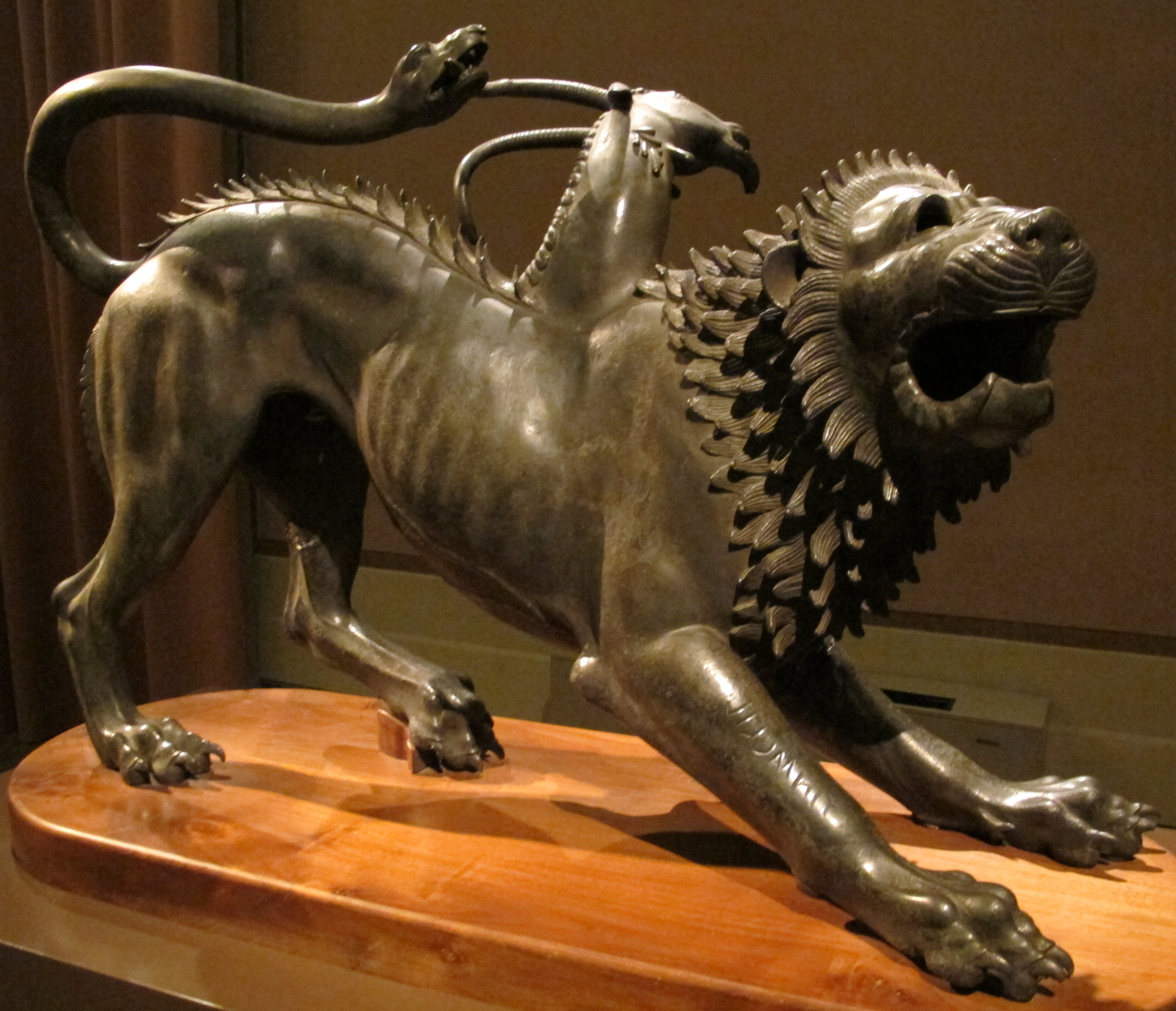 Etruscan bronze statue depicting the legendary monster. It was originally part of a group with Bellerophon and Pegasus. On the right leg is engraved the dedicatory inscription to Tinia.